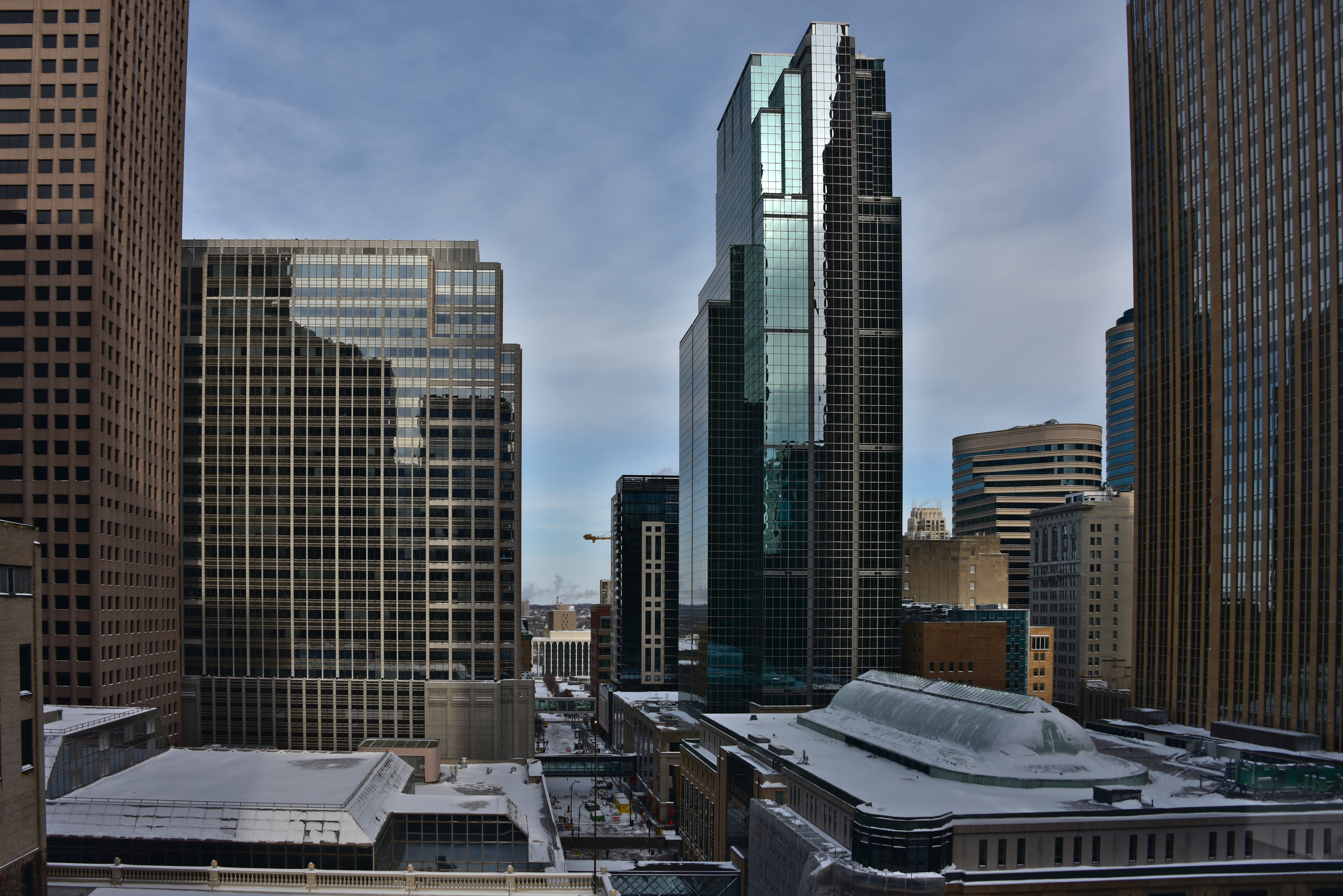 Downtown Minneapolis from the Skyroom